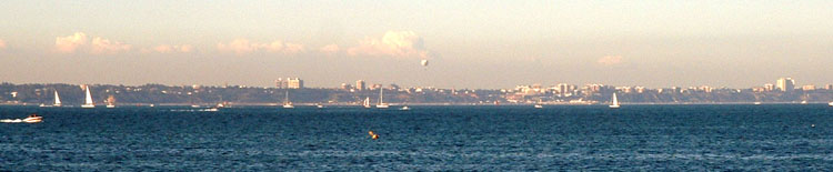 Bournemouth, Dorset from Studland